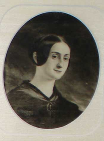 Portrait of Penina Moise